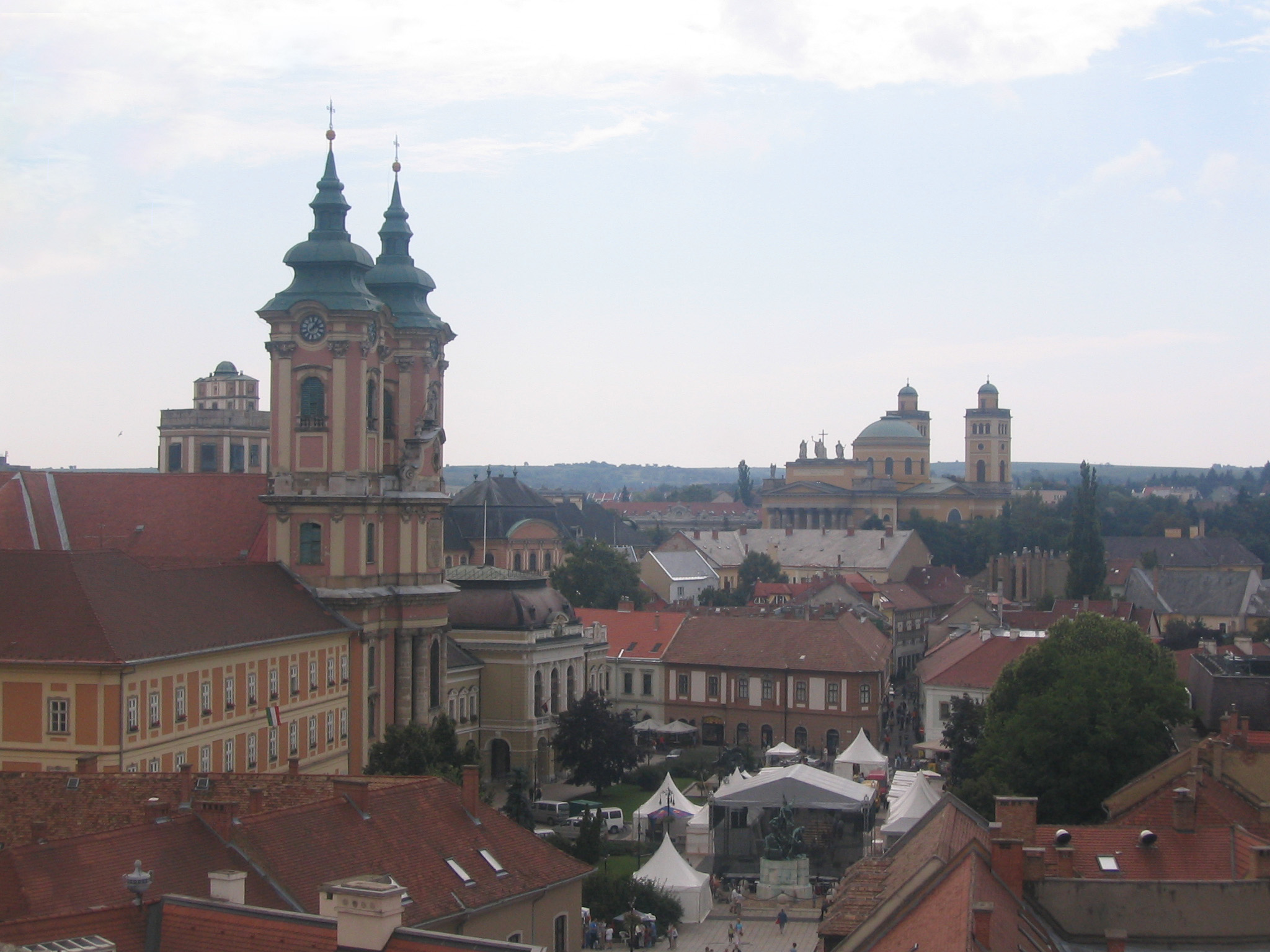 Eger with the Dobó tér and Minorite Church, Hungary